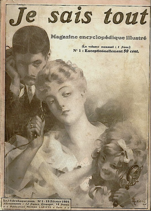 Je sais tout, french magazine cover designed by René Lelong, issue 01 published in Paris by Pierre Lafitte.